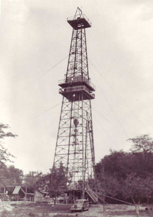 Oil well at Boldeşti, RomaniaRomână: Sondă la schela de petrol Boldeşti, judeţul Prahova, România